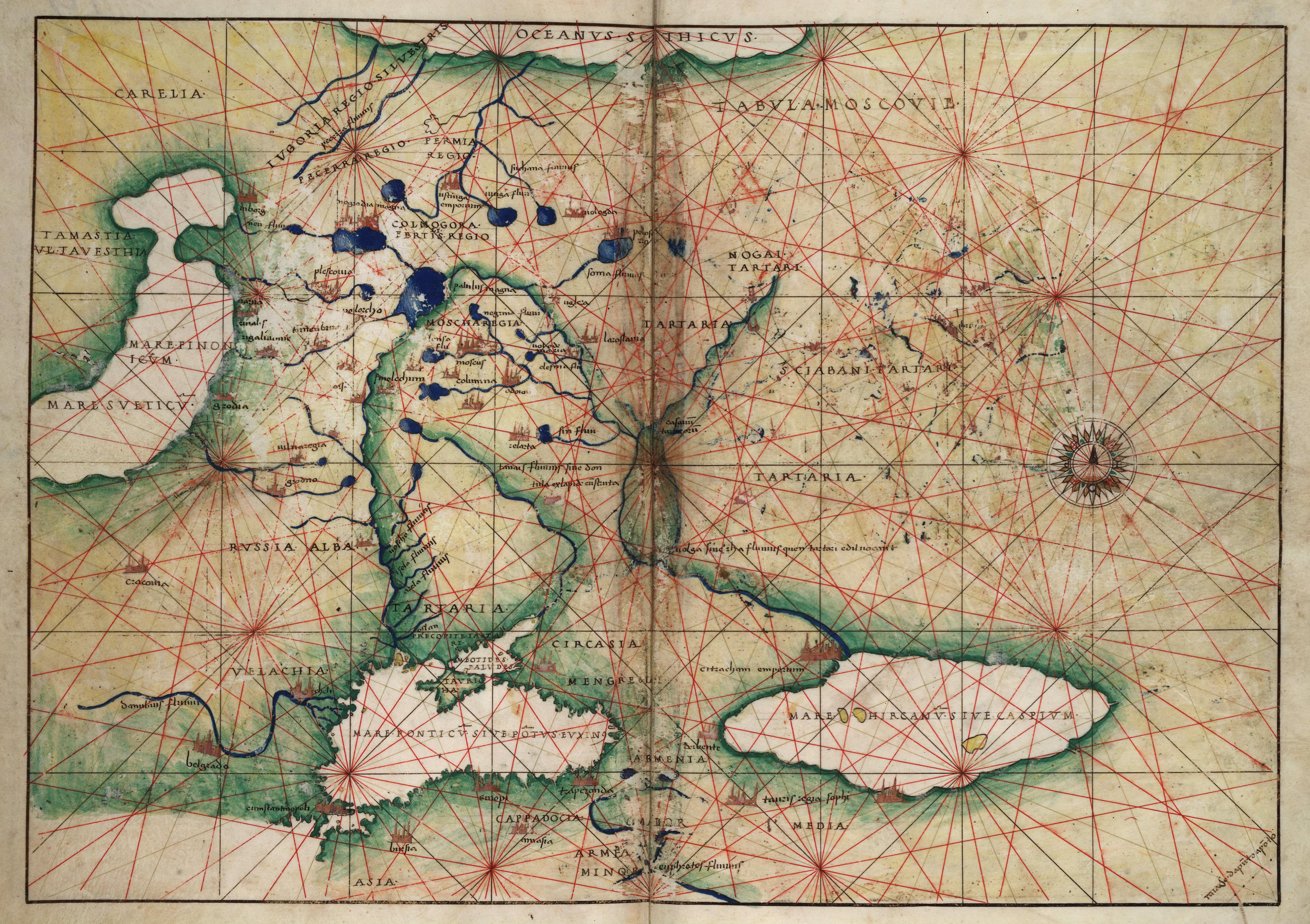 Map of Russia. HM 10. Battista Agnese, PORTOLAN ATLAS (Italy ca. 1550)